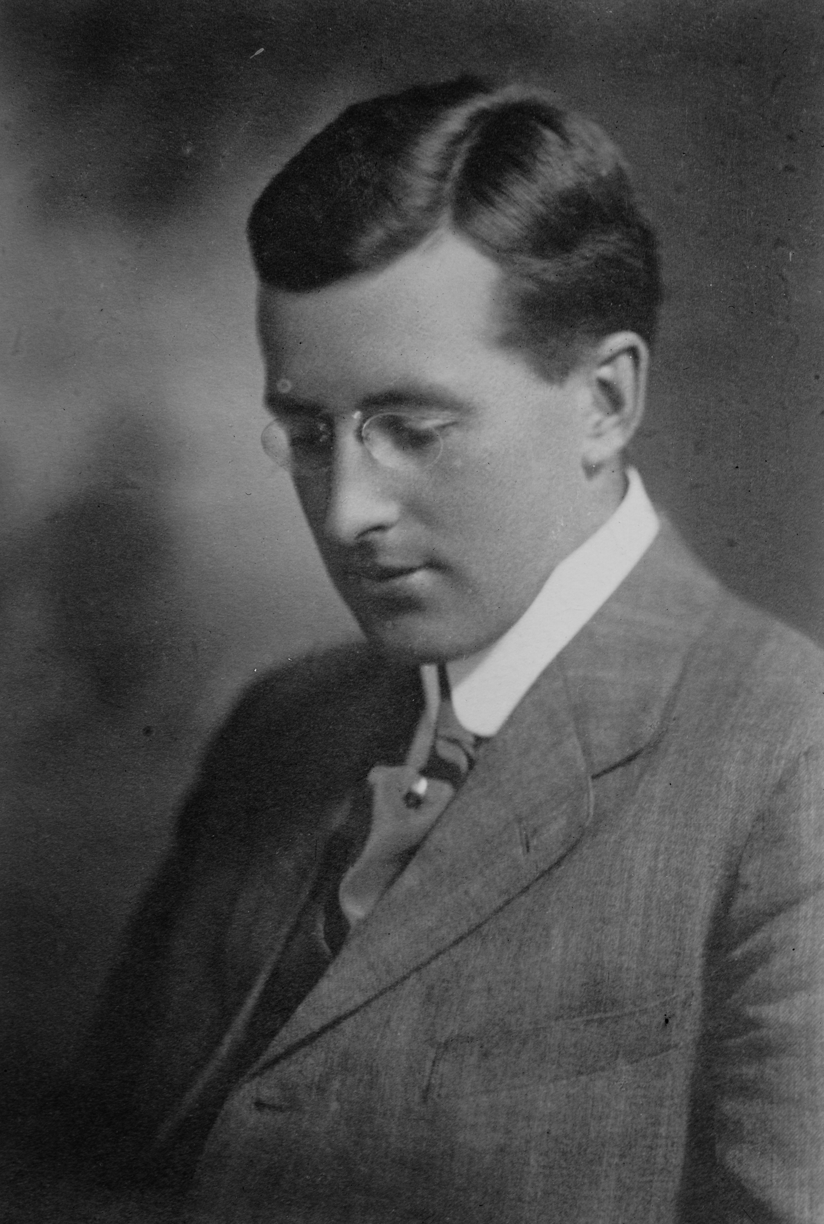 John Eyre Sloane circa 1914 Bain News Service,, publisher. John Eyre Sloane [between ca. 1910 and ca. 1915] 1 negative : glass ; 5 x 7 in. or smaller. Notes: Title from unverified data provided by the Bain News Service on the negatives or caption cards. Forms part of: George Grantham Bain Collection (Library of Congress). Format: Glass negatives. Repository: Library of Congress, Prints and Photographs Division, Washington, D.C. 20540 USA, General information about the Bain Collection is available at Persistent URL: Call Number: LC-B2- 2636-13